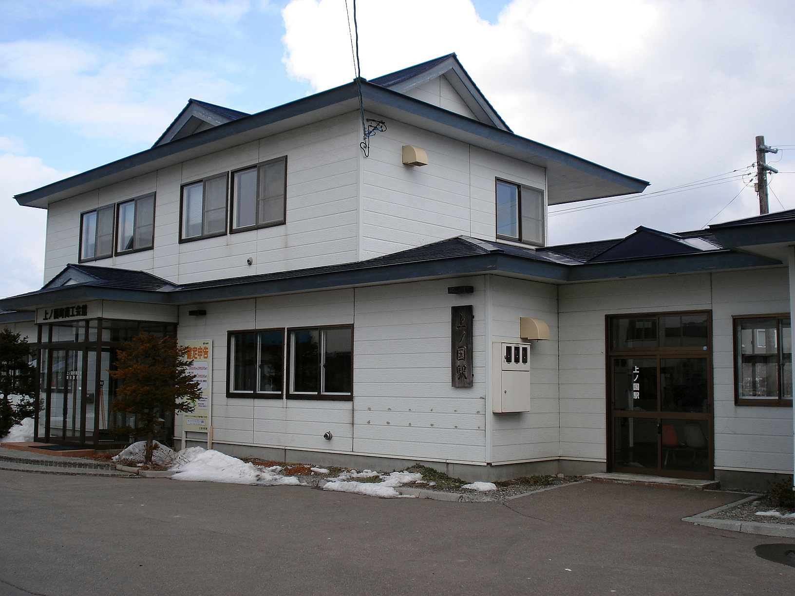 This station, Kaminokuni station, is on the JR Hokkaido's Esashi Line, in Kaminokuni town, Hokkaido, Japan.